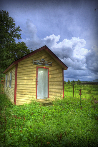 Friendship School in Tabernacle, New Jersey. Only standing one room school house in Tabernacle.